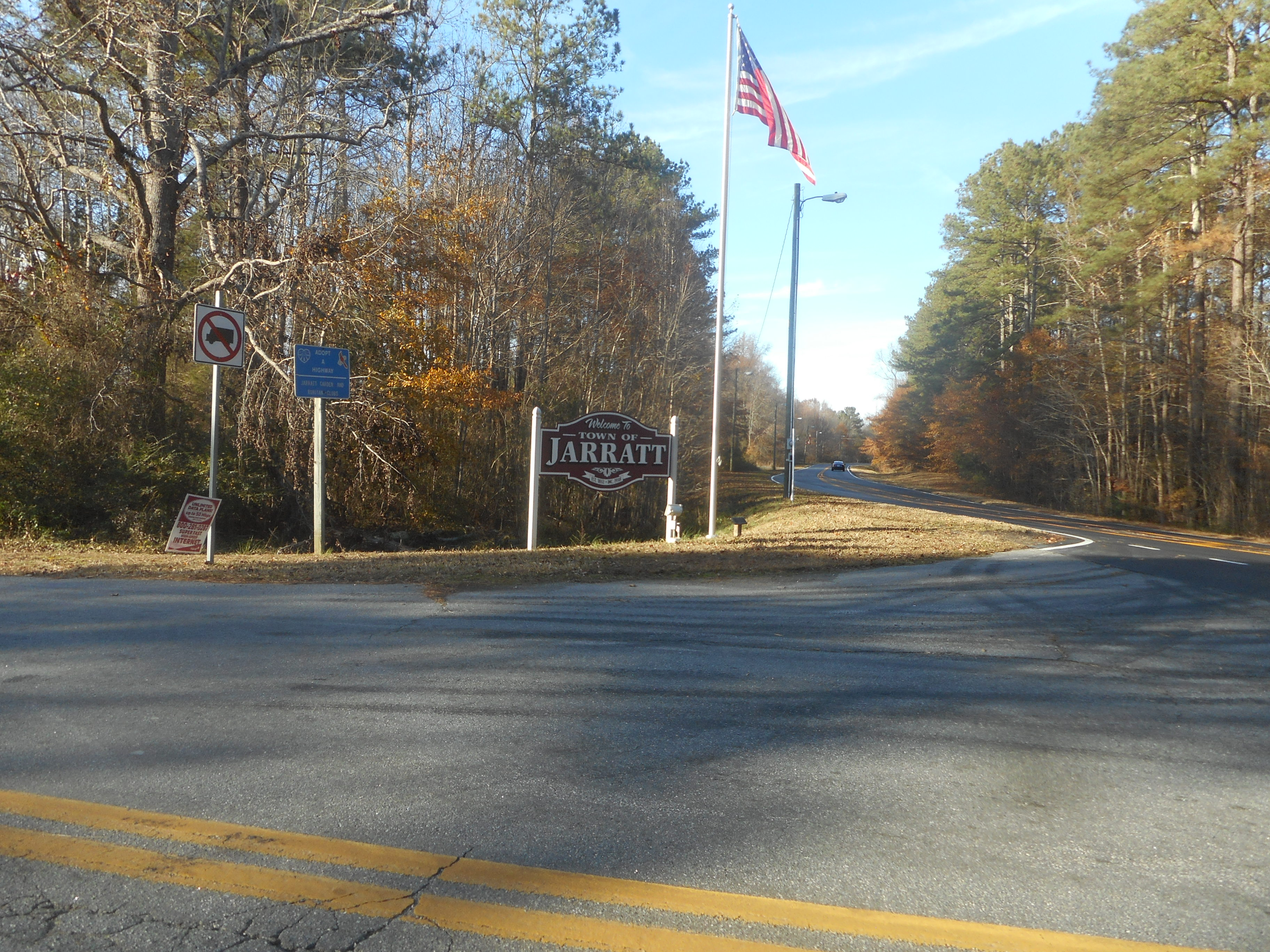 Welcome sign at the southwest corner of Virginia State Route 139 and Henry Road as seen from Henry Road in the Town of Jarratt, Virginia.